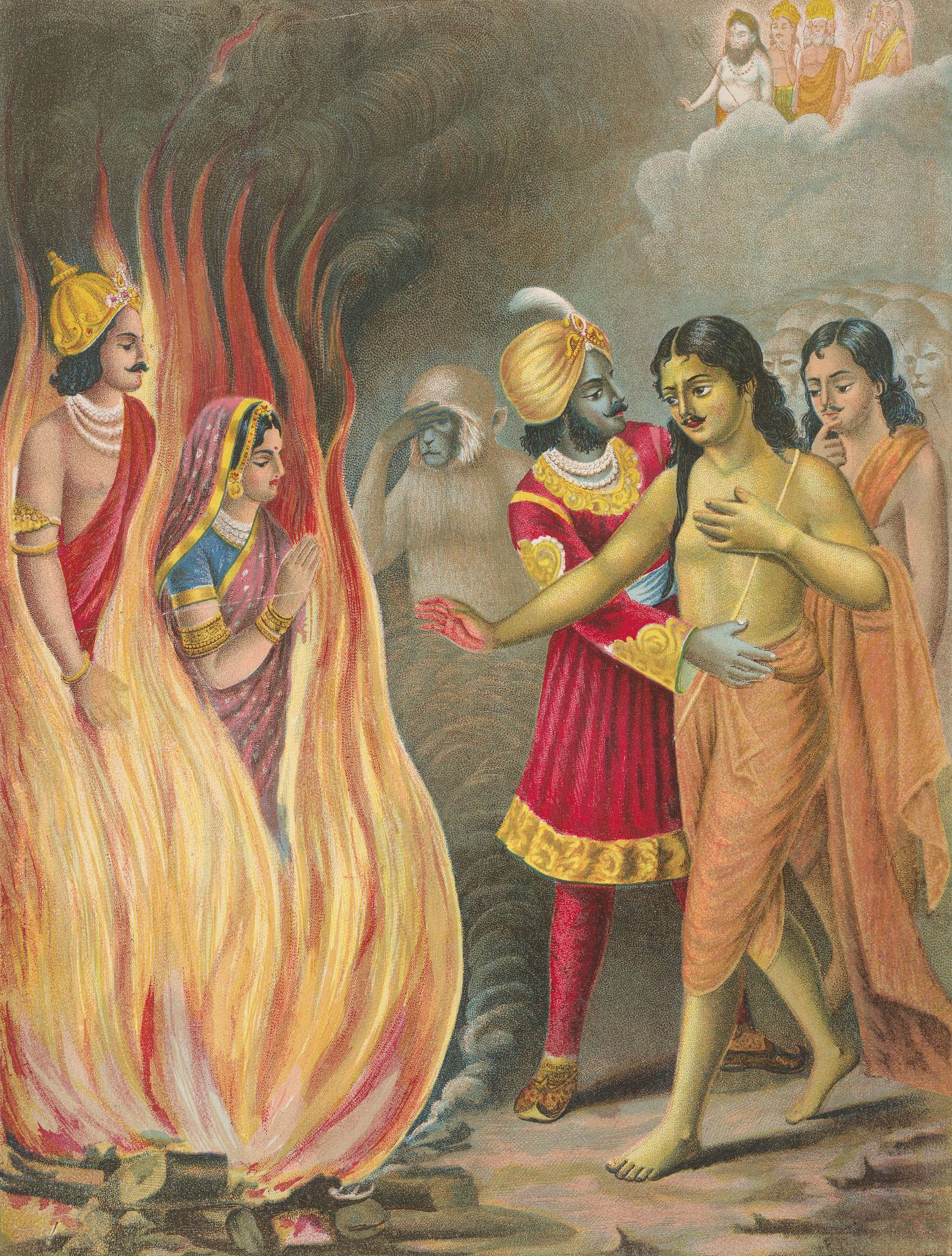 Part of an album of popular prints. An episode from the Ramayana: Sita's ordeal by fire. Rama is seen being restrained, to one side of the image, while the gods look on from a cloud, above.